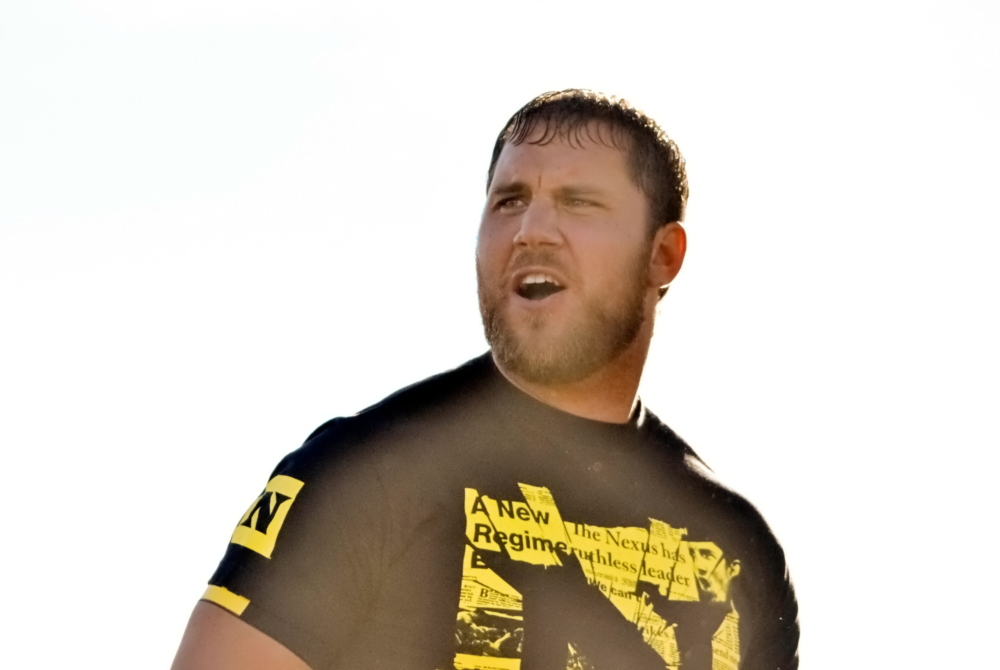 Micheal McGuillicutty at WWE's Tribute to the Troops show on December 11, 2010 in Fort Hood, Texas.